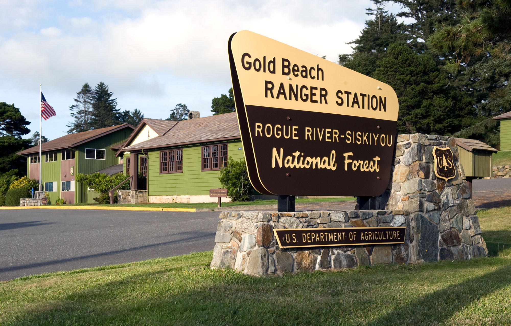 Gold Beach Ranger Station: Rogue River - Siskiyou National Forest. The Gold Beach Ranger Station was listed on the National Register of Historic Places in 1986.